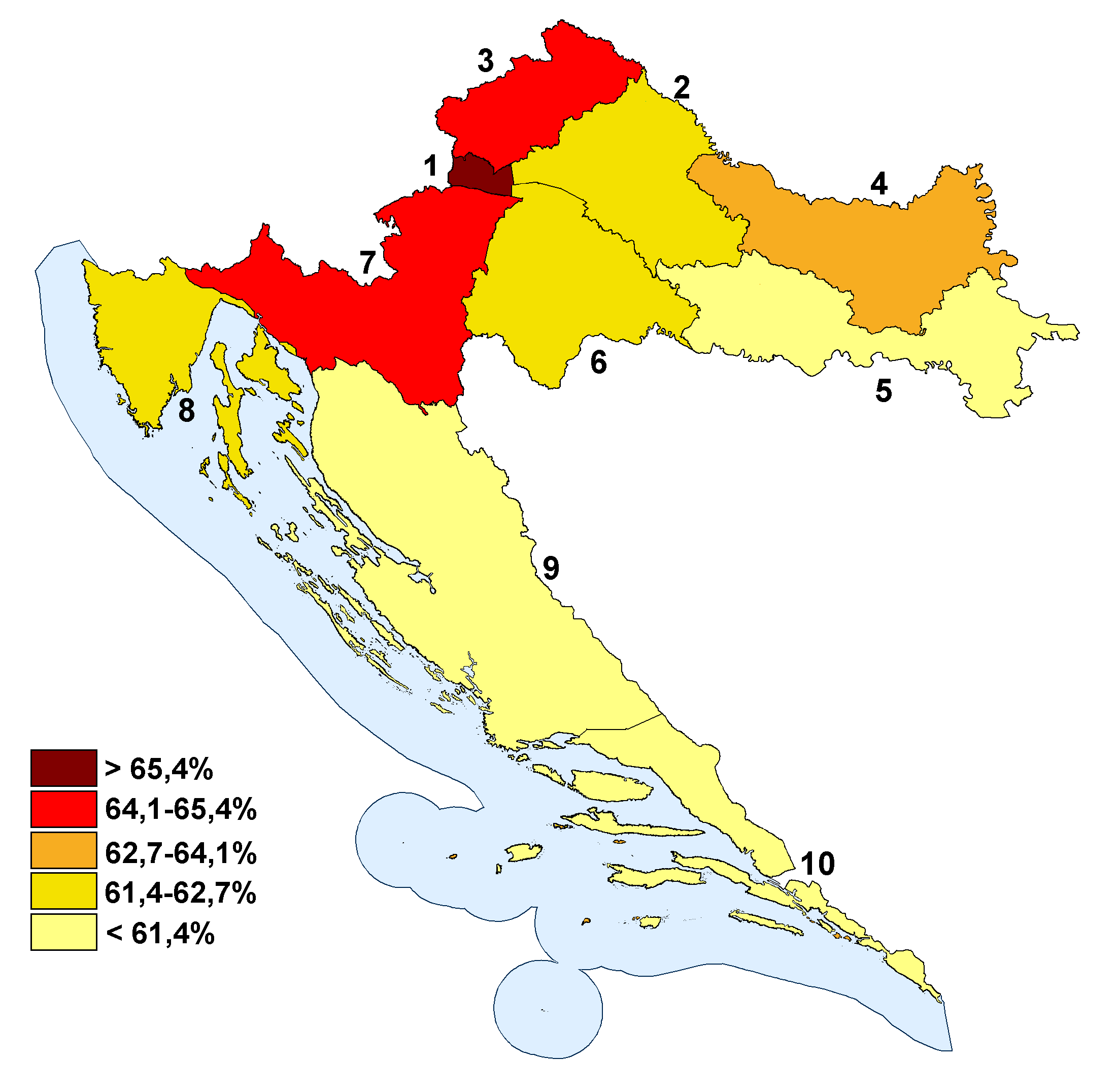 Election turnout for 2011